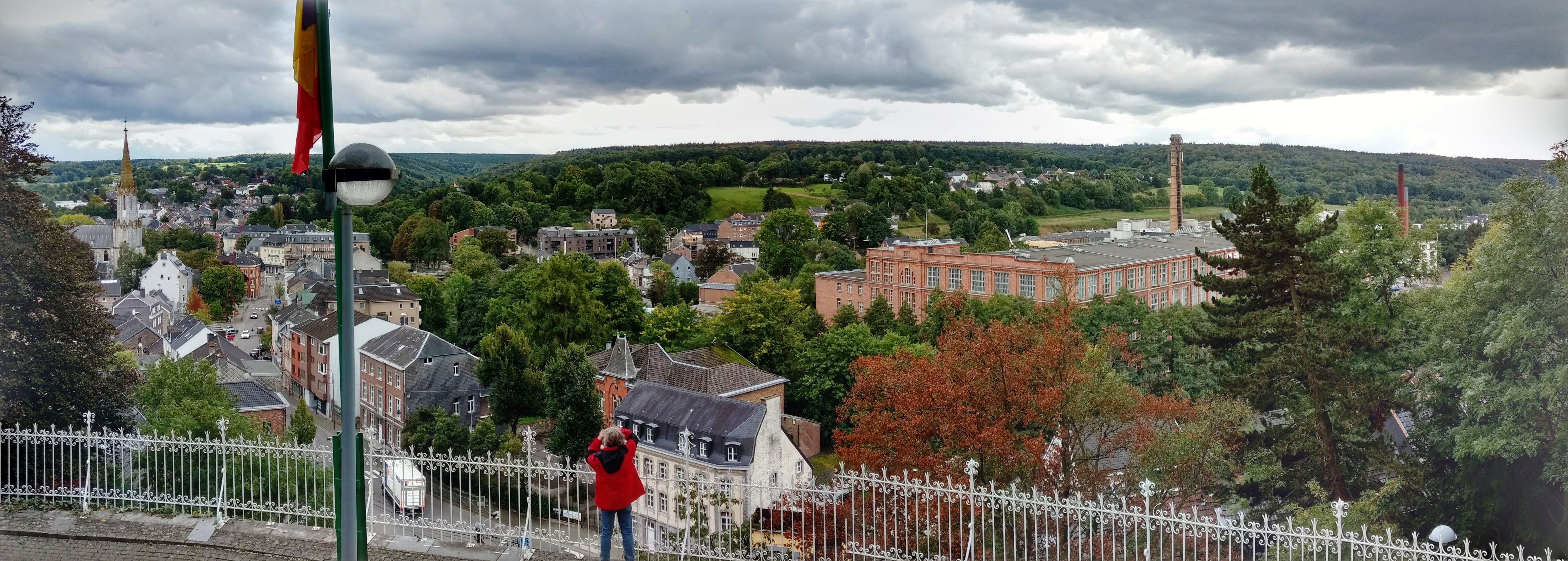 Panoramic of the lower town of Eupen, Belgium, as seen from Mooren-Höhe